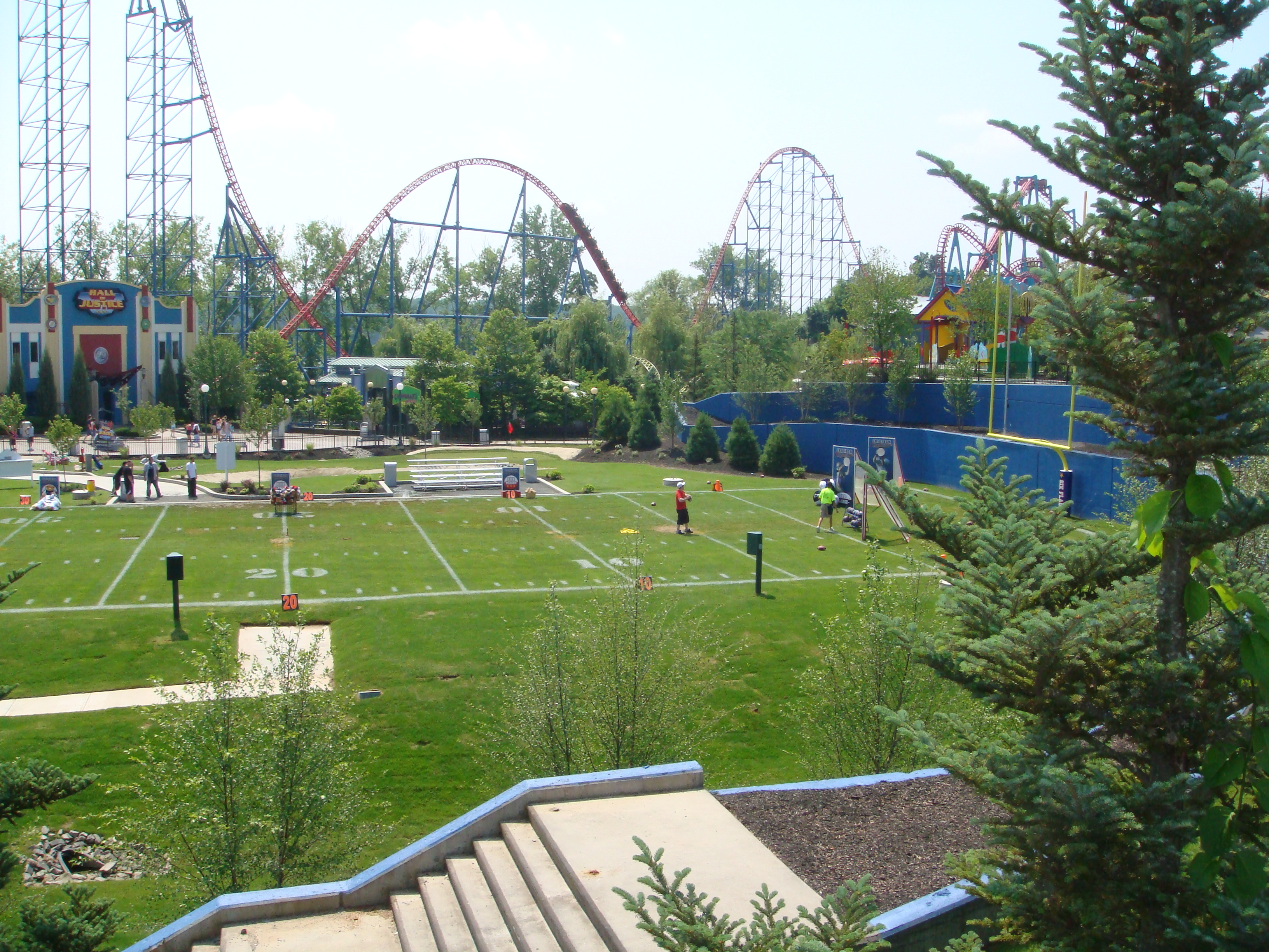 Six Flags New England Trip June 2008 373